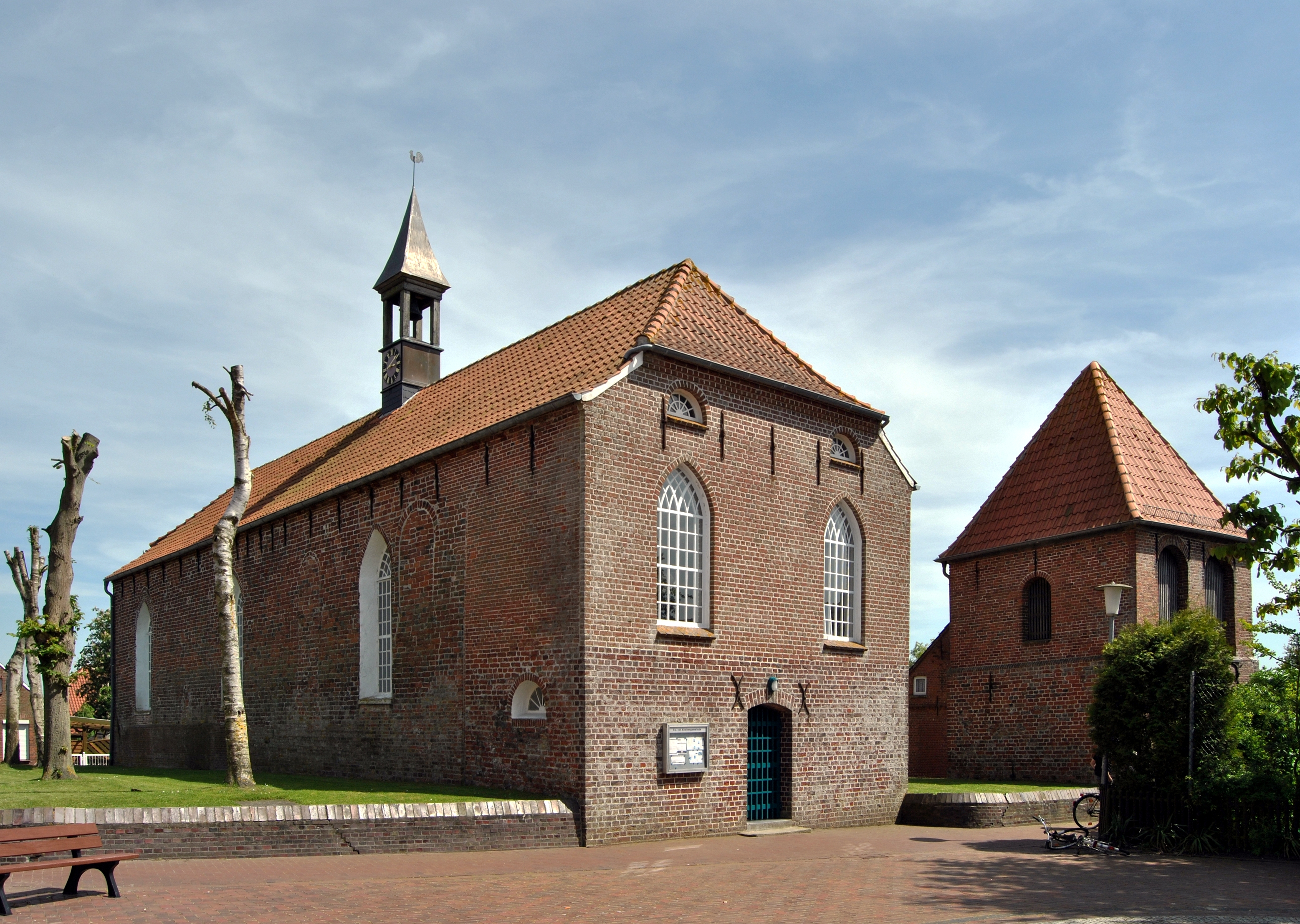 View from the northwest to the Evangelical Reformed Church of the East Frisian municipality Wirdum